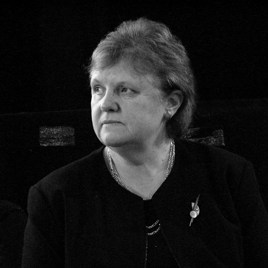 The head and shoulders of Janet Finch, pictured on the platform as a guest speaker at the 11 November 2003 General Meeting of the Keele University Students' Union. KUSU Ballroom, Keele, Staffordshire, UK.